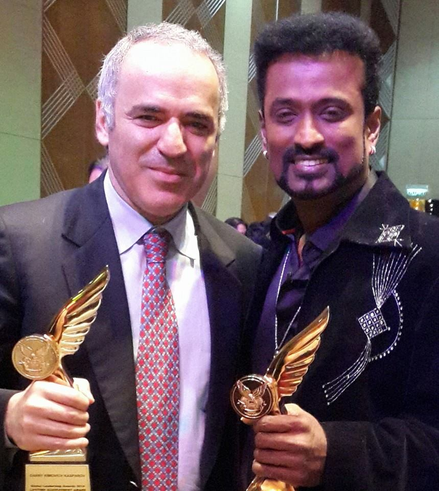 SAC Vasanth (Right) with 'Chess Champion' Gary Kasparov (Left) in Global Leadership Awards 2014